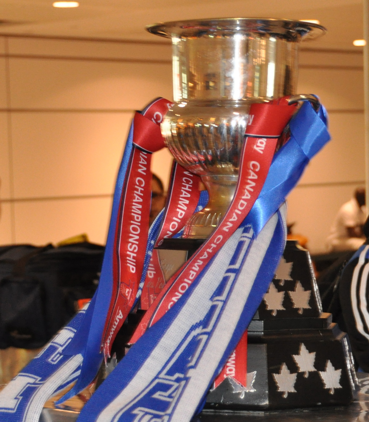 The Voyageurs Cup, the trophy awarded to the winner of the Canadian Championship soccer (association football) tournament, decorated with a scarf of Ultras Montréal, the Impact's main supporters group. Photo taken at Montréal–Pierre Elliott Trudeau International Airport, 2 June 2013.